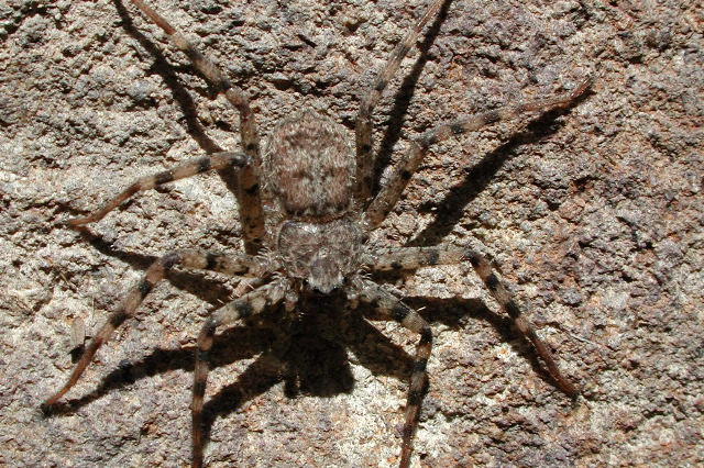 Selenops sp. from Baja California.